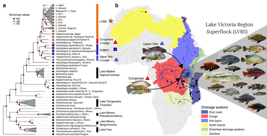 Chiclid Phylogeny